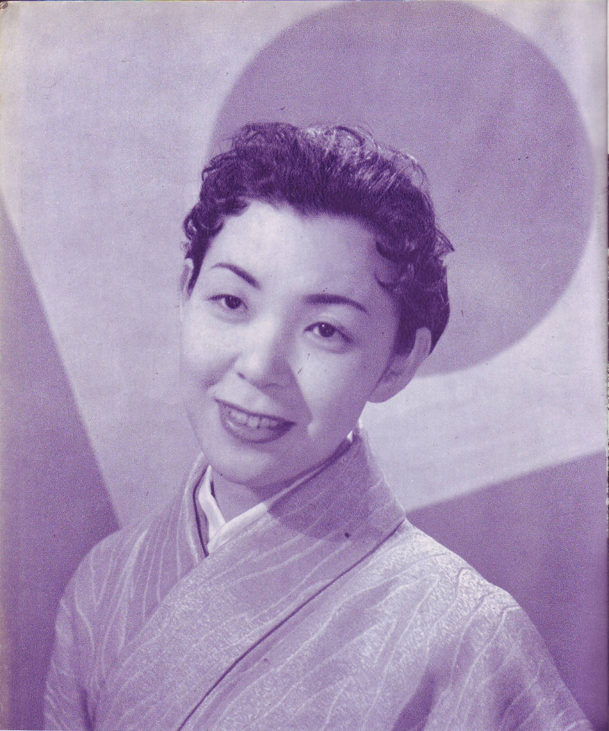 Nishiki Kamiyo (Takarazuka Reveu). taken in before 1955.